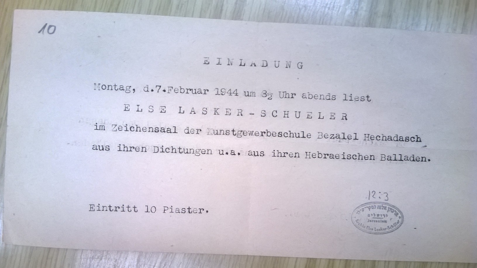 Der Kraal